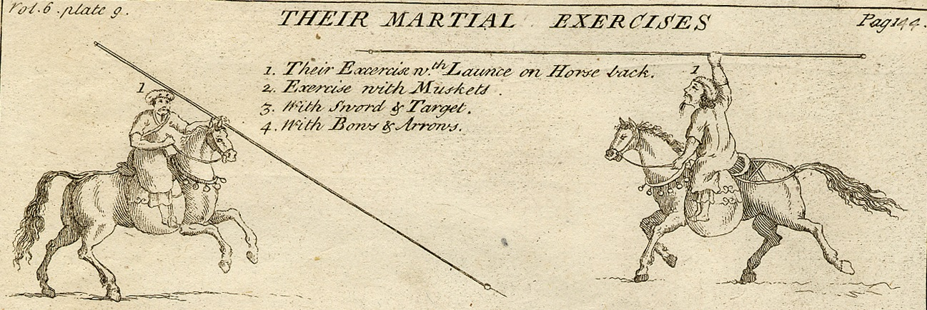 17th century Tonkinese lancers, View of 17th century Vietnam, Samuel Baron